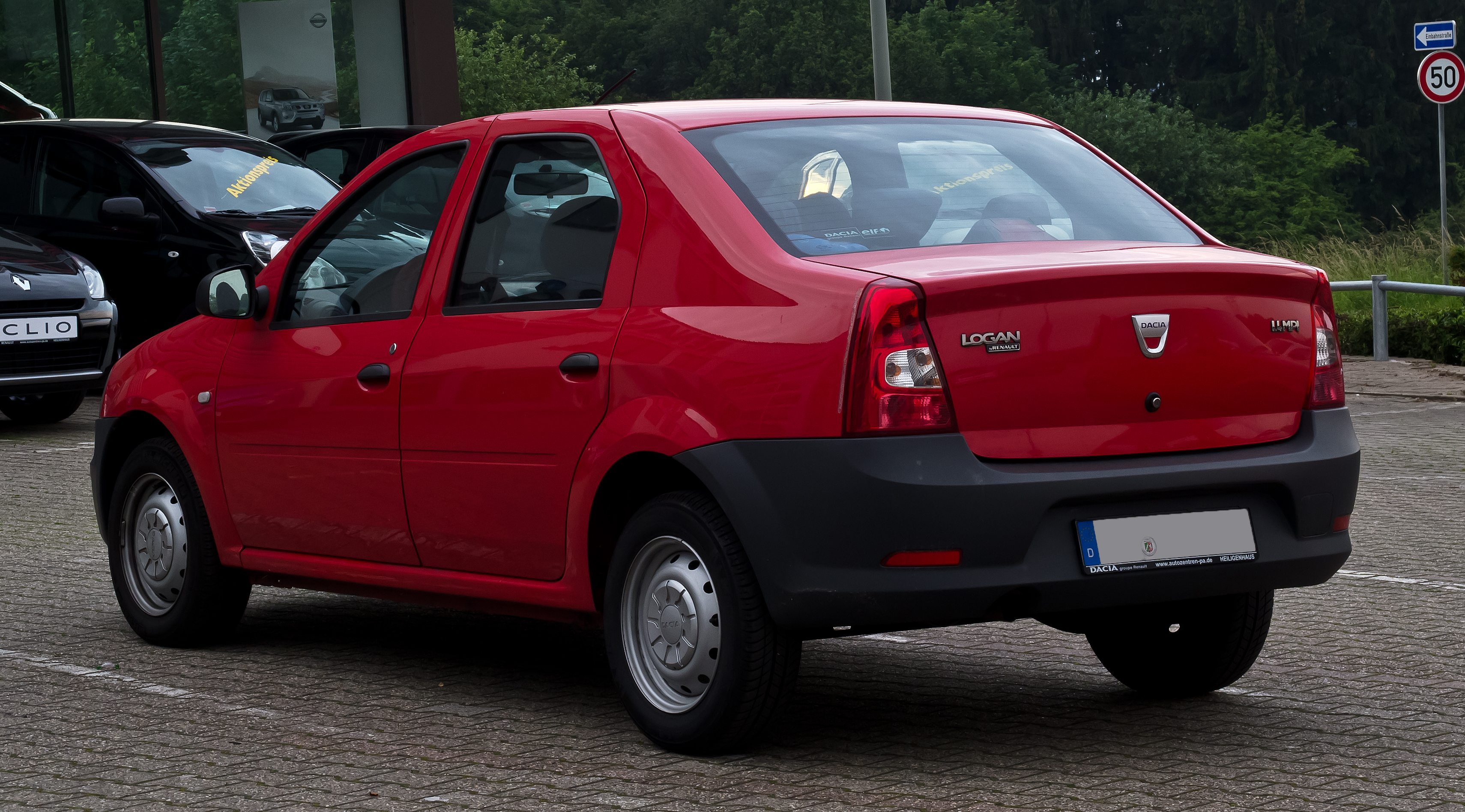 Dacia Logan 1.4 MPI (Facelift)